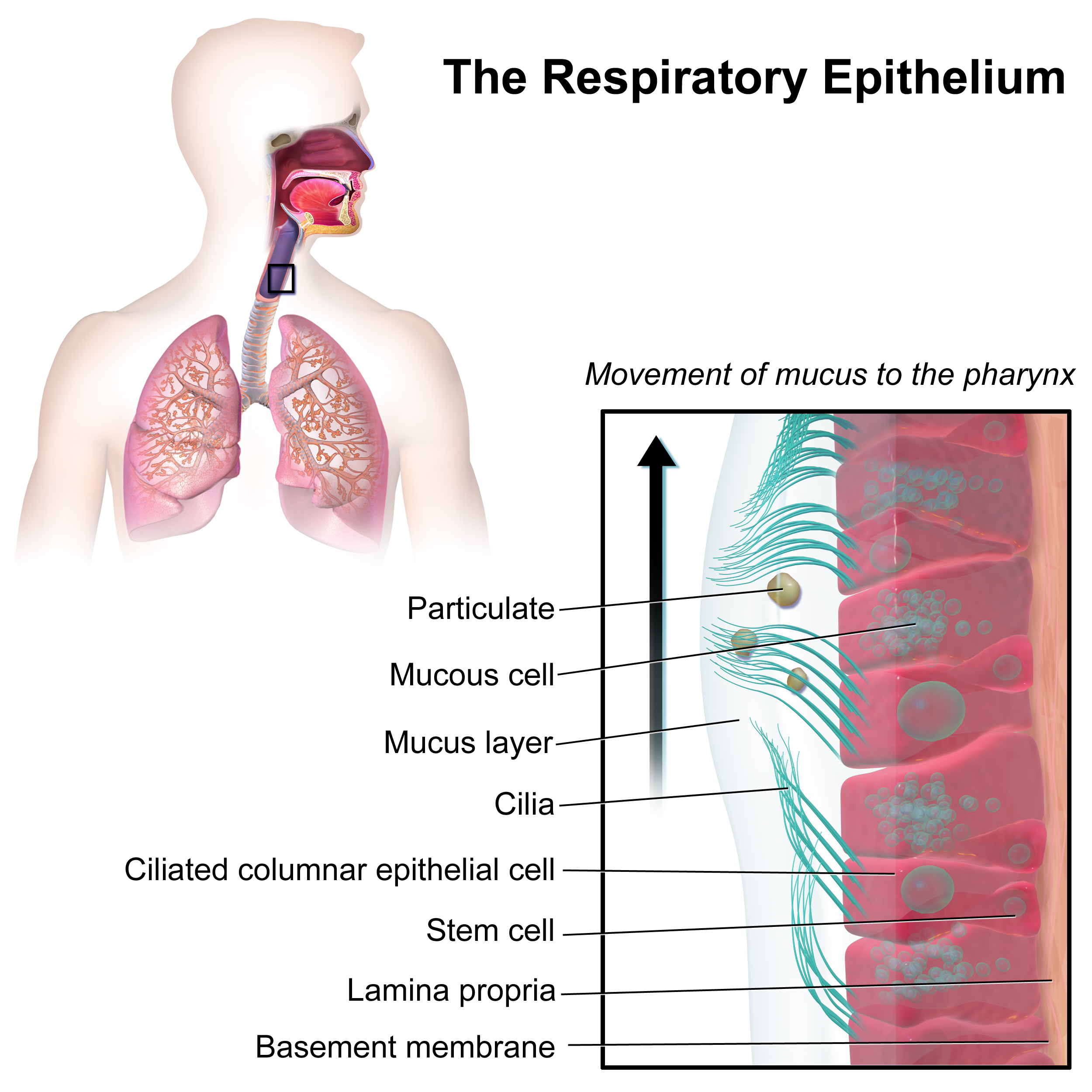 Respiratory Epithelium. See a related animation of this medical topic.